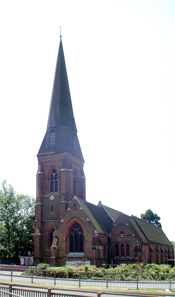 St Andrew, Hillingdon Road, Uxbridge